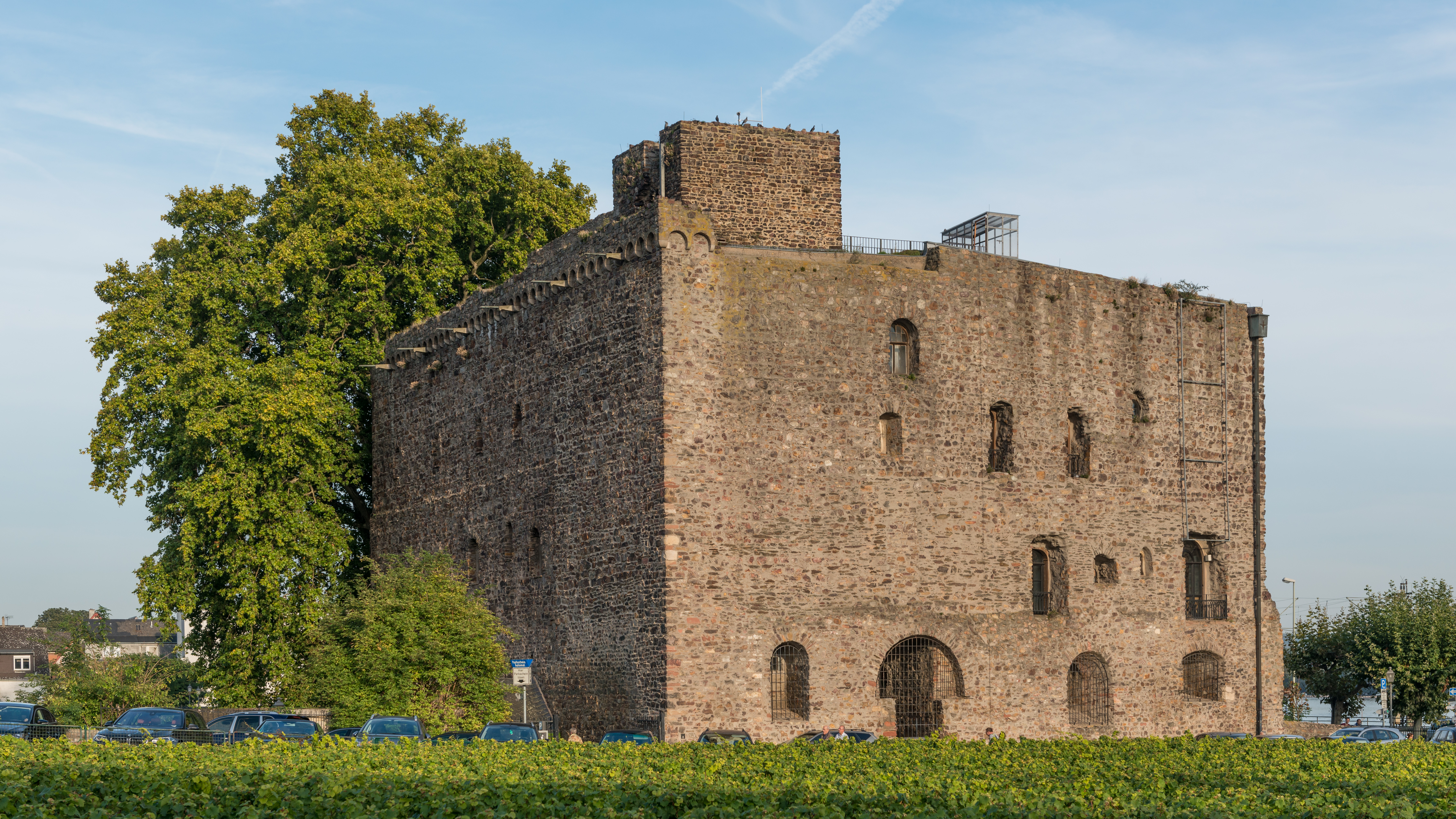 The Brömserburg in Rüdesheim am Rhein, as seen from west. The castle is considered to be one of the oldest of the region.